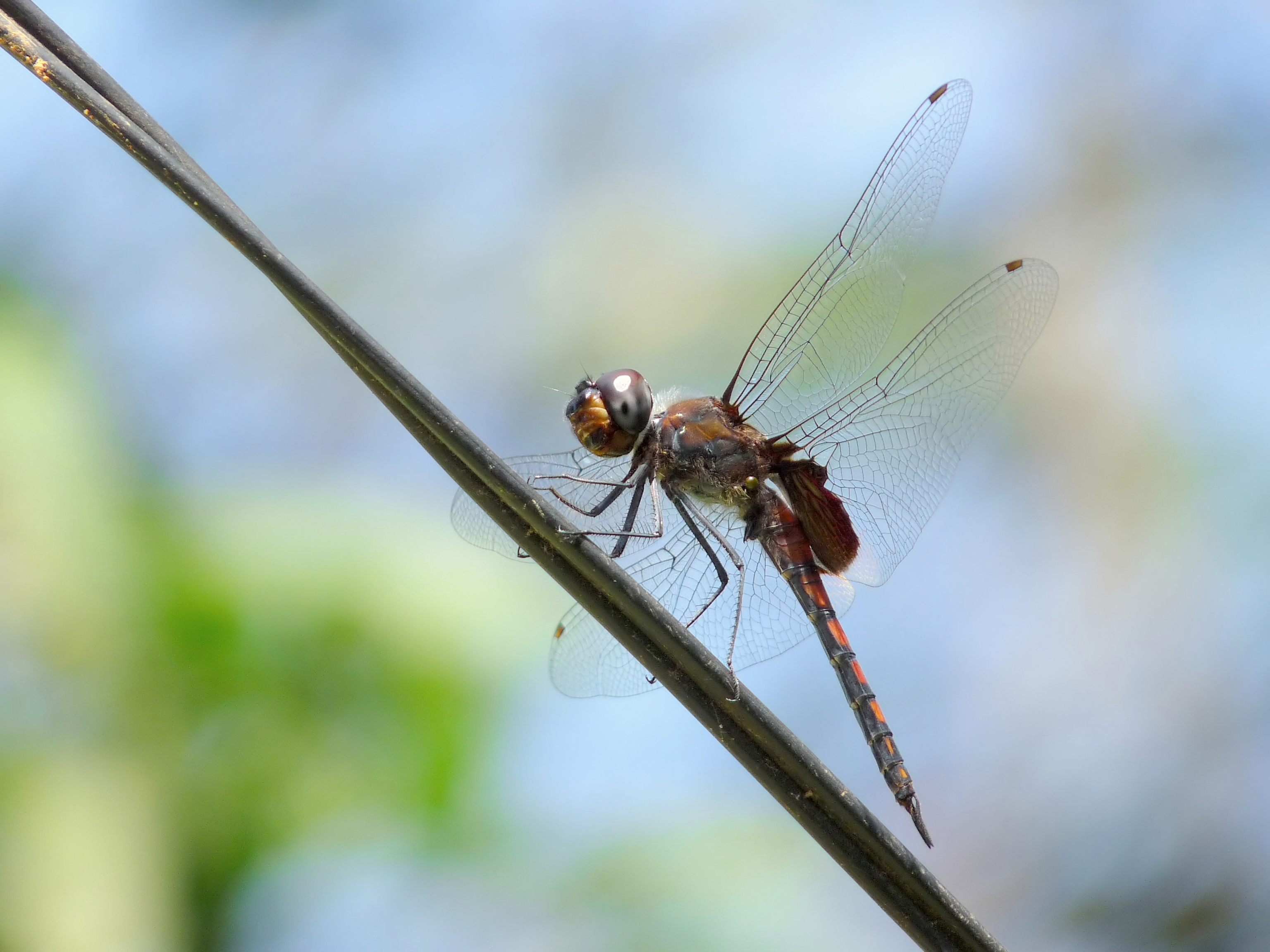 Tramea limbata, Black Marsh Trotter, is a medium sized black dragonfly with blood red tail and black hindwing patch. Male face is olivaceous or bright ochreous in front and dark iridescent violet above. This midday flying dragonfly is commonly seen patrolling over water bodies and rarely sits. Female is very similar to male (this is a male). However, the black markings on the abdomen are more extensive. Taken at Kadavoor, Kerala, India.